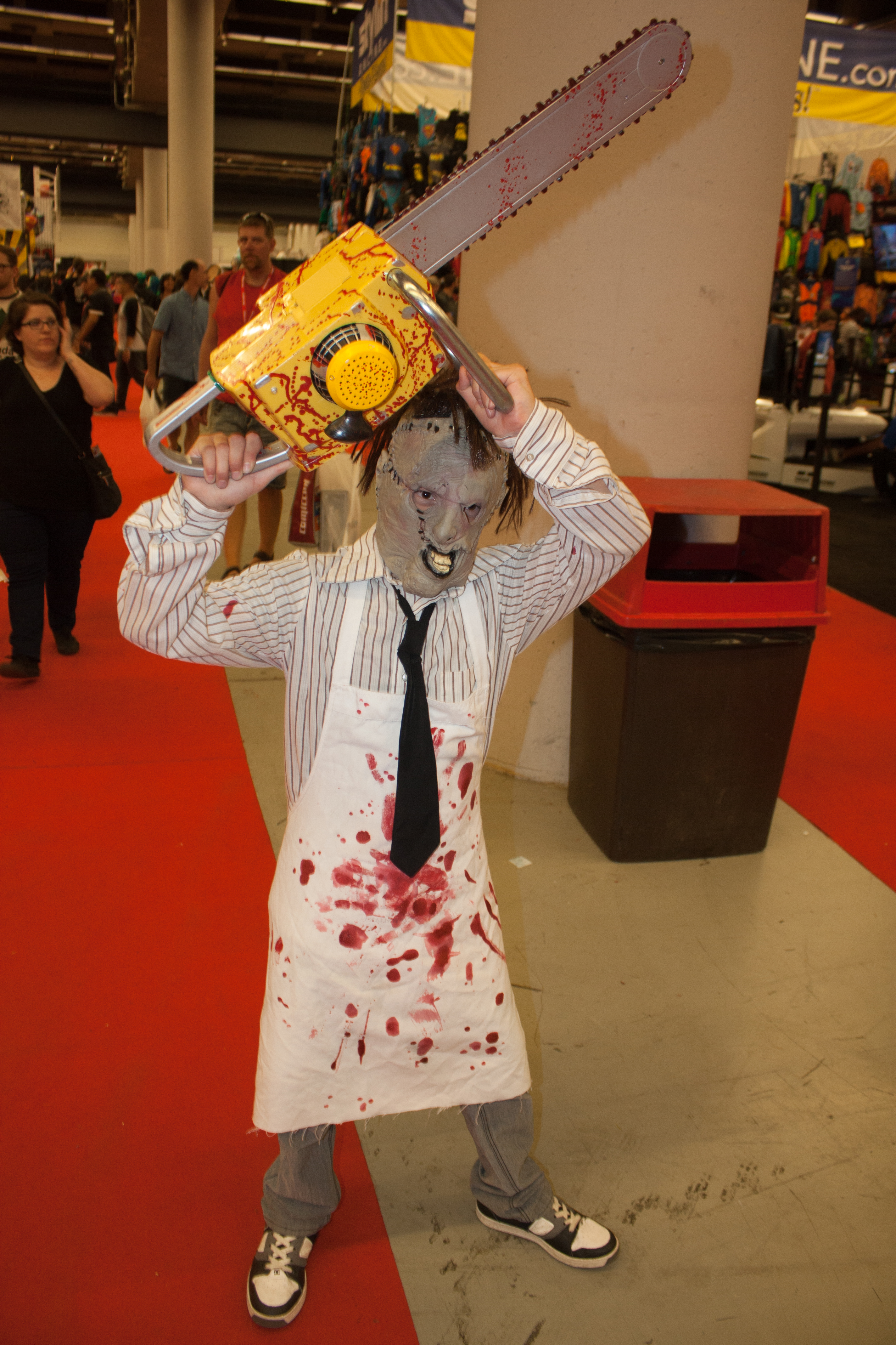 Cosplay on Friday, day one, of the Montreal Comiccon 2016.